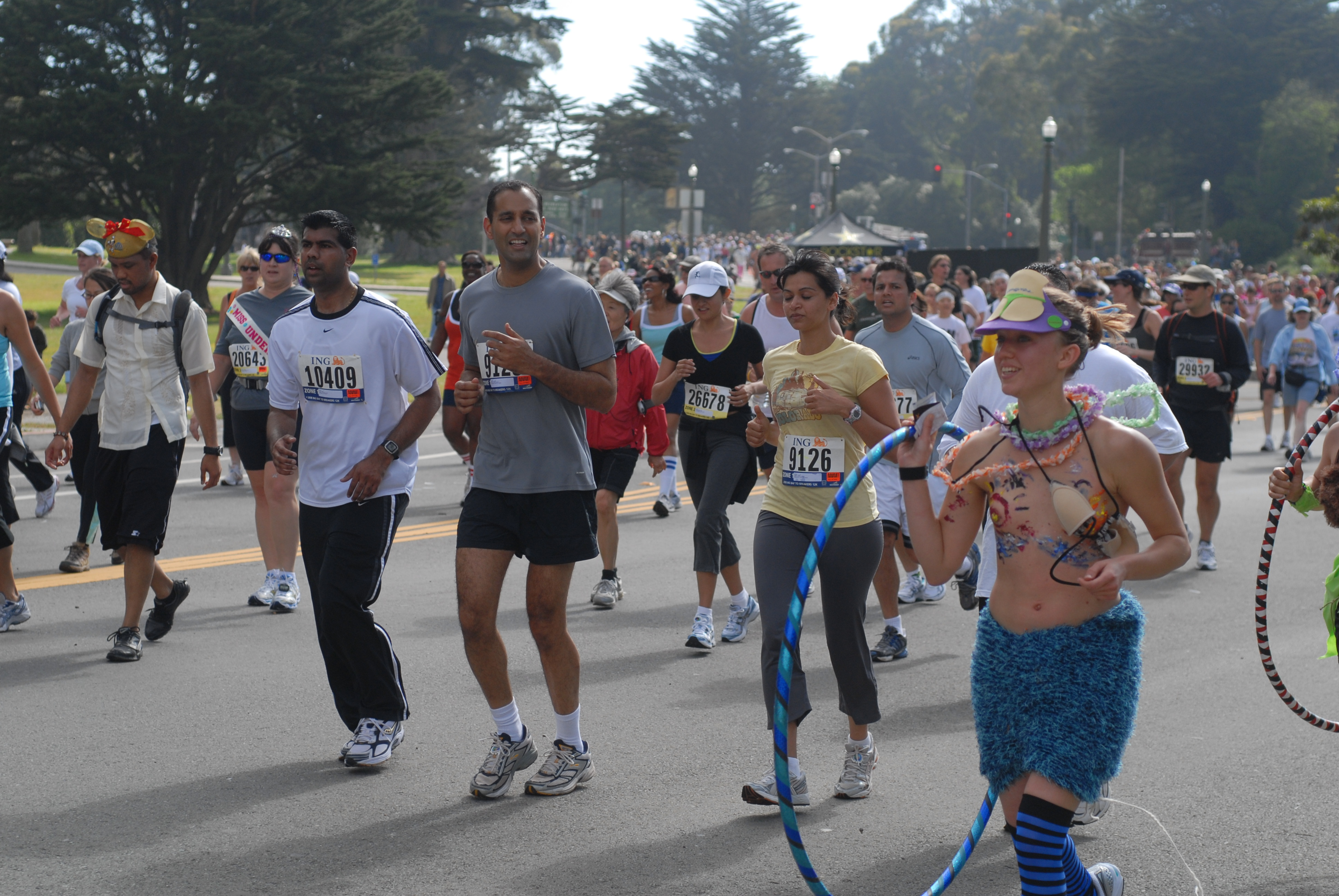 Bay to Breakers 2008, San Francisco